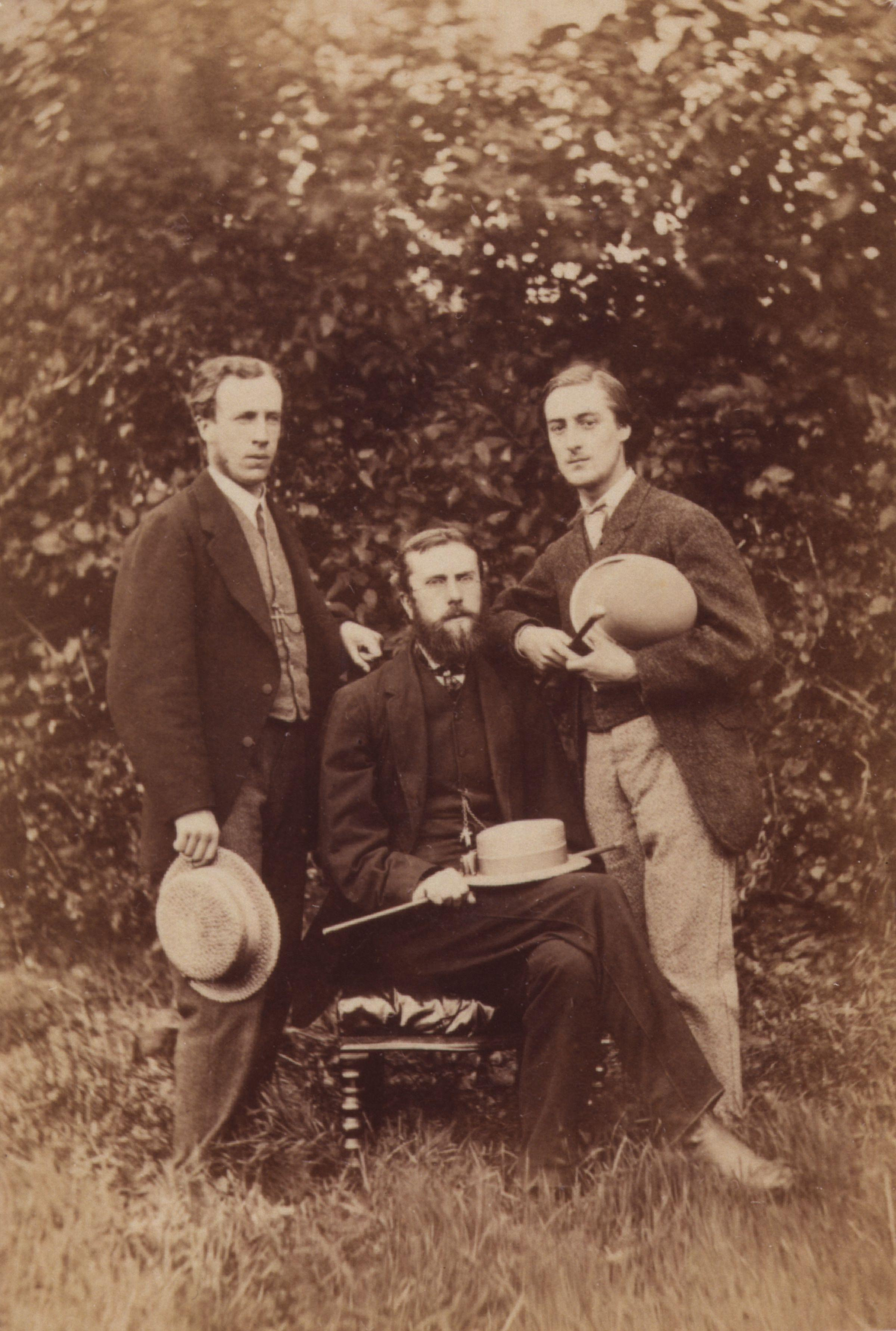 Alfred William Garrett; William Alexander Comyn Macfarlane; Gerard Manley Hopkins, by Thomas C. Bayfield. All images in this batch have a known author, but have manually examined for strong evidence that the author was dead before 1939, such as approximate death dates, birth dates, floruit dates, and publication dates.